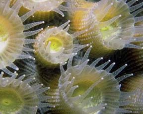 Coral polyps in symbiosis with unicellular dinoflagellates